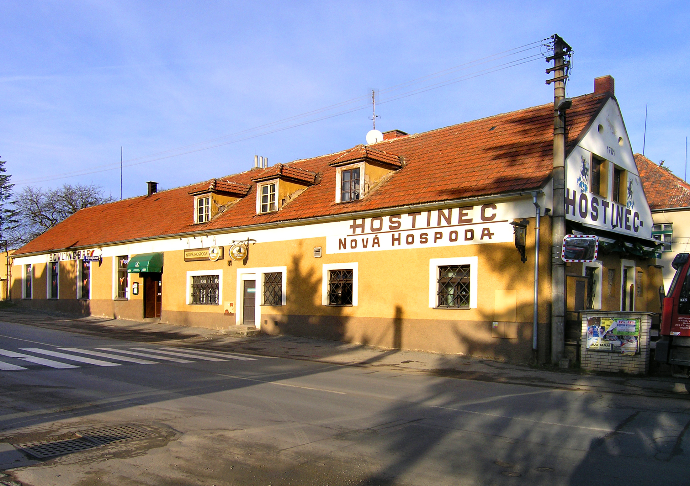 Pub "Nová hospoda" (english: New pub) in Nová Hospoda, part of Kamenice village, Czech Republic